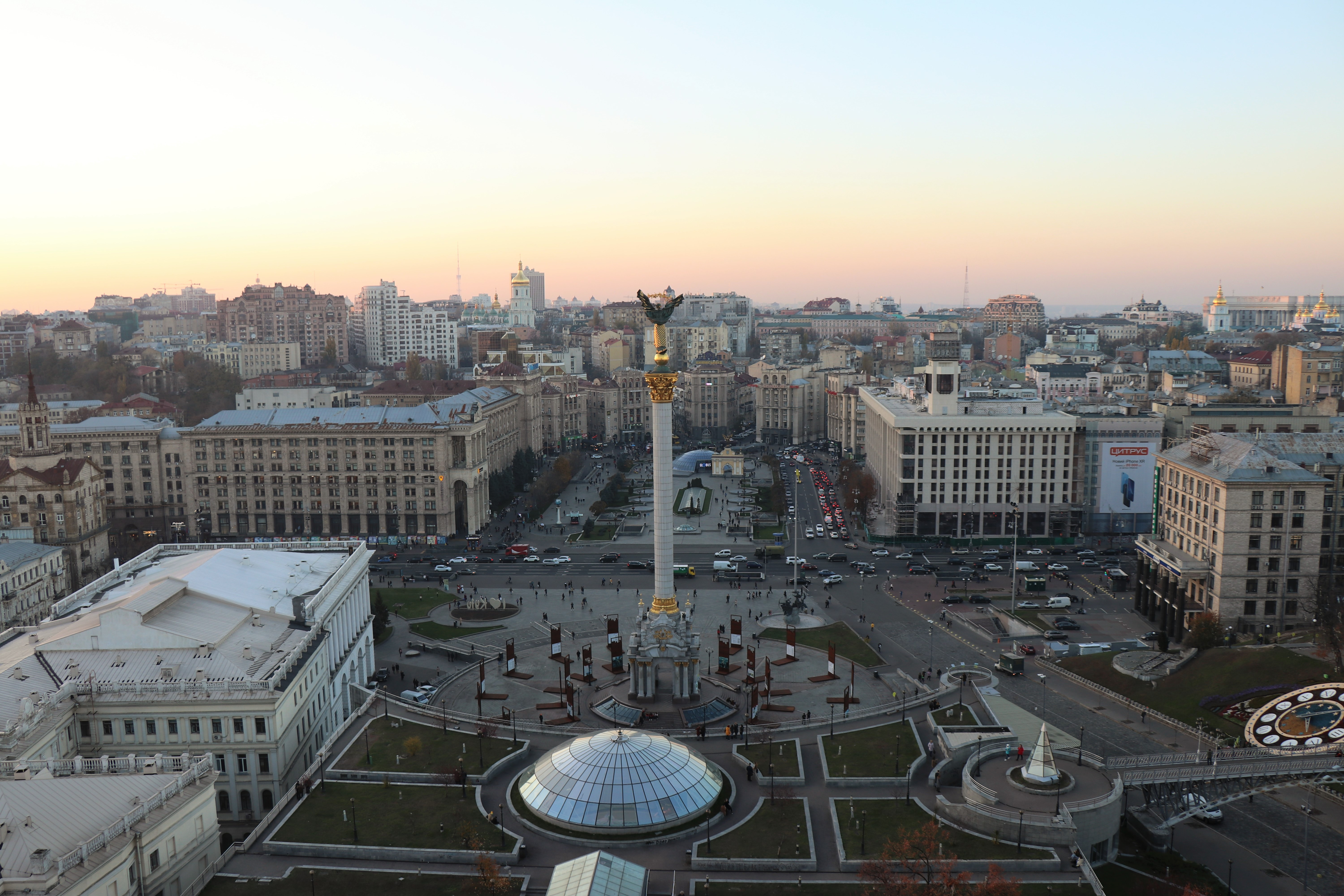 a view of Maidan Nezalezhnosti in Kiev, Ukraine